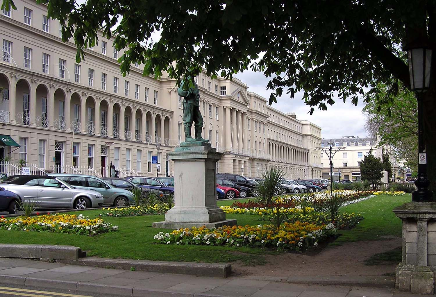 A view in the centre of Cheltenham. The statue is of Edward Wilson, the Antarctic explorer (sorry I've taken his head off!). Photographed by Adrian Pingstone in April 2005 and released to the public domain.